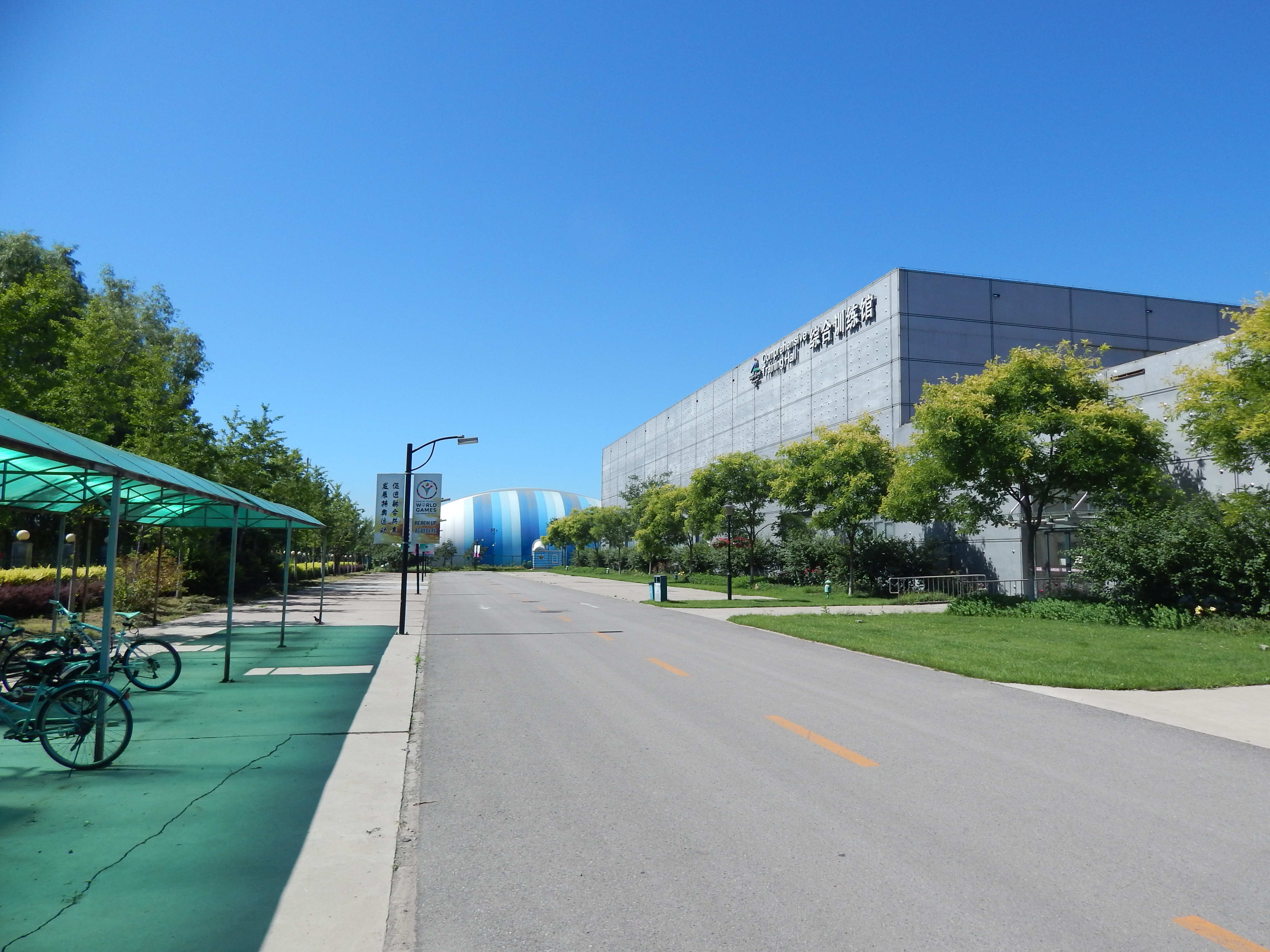 China Disability Sports Training Centre - Multi-Sport Hall